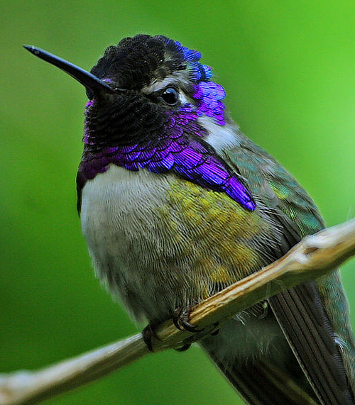 Costa's hummingbird (Calypte costae); a type of Hummingbird i.e., a member of family Trochilidae.